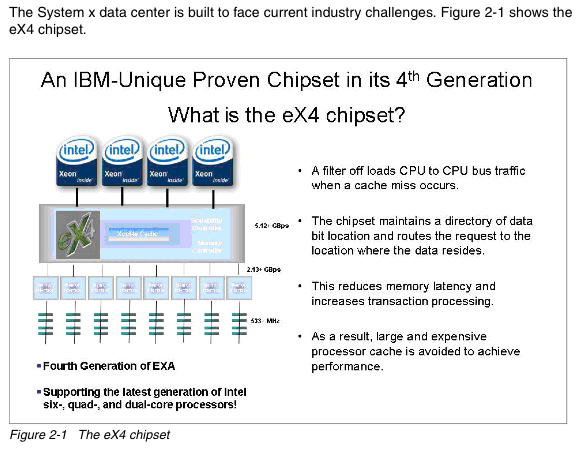 ex4